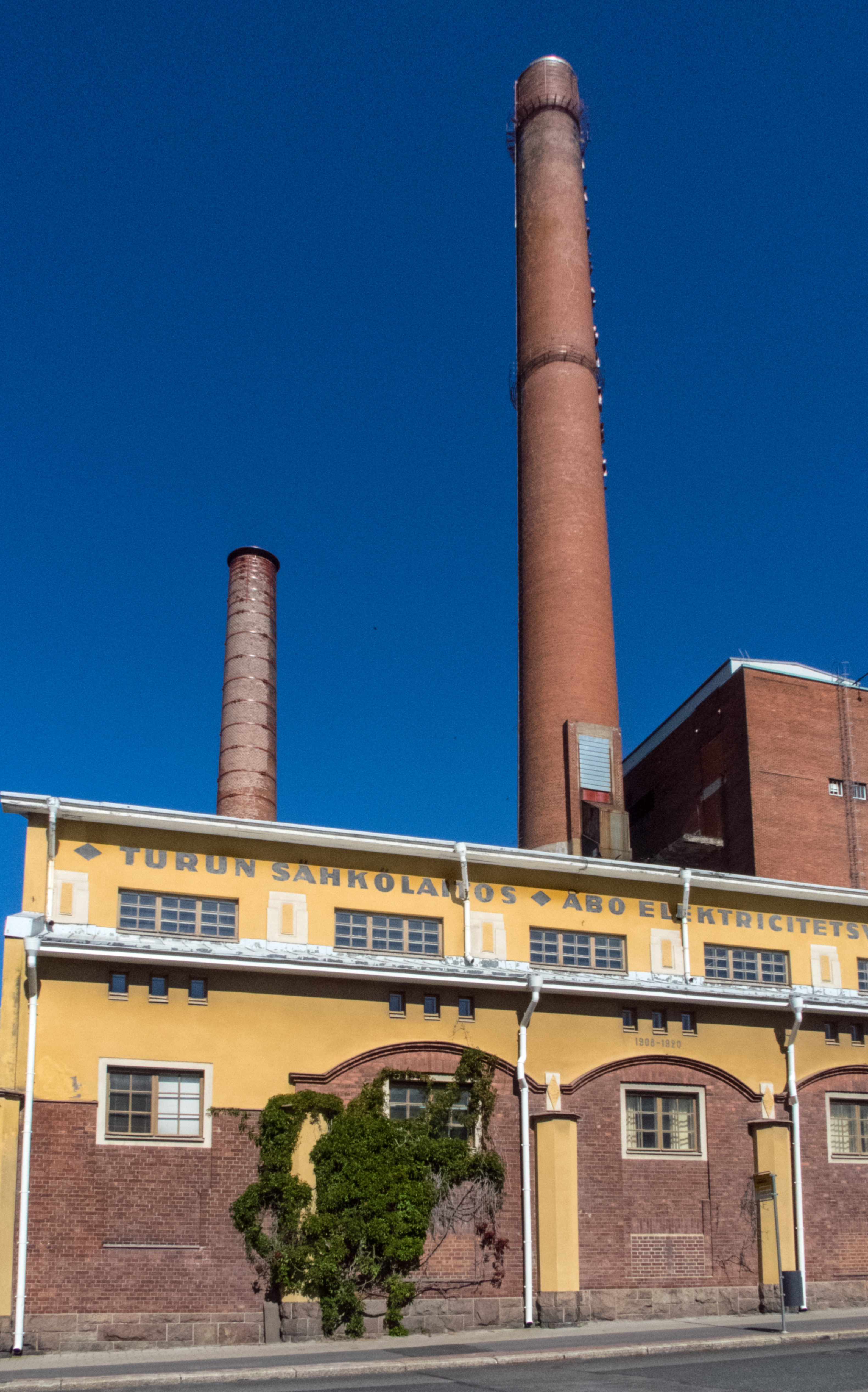 Early 1900s power station on Linnankatu, Turku, Finland. Architect C. Rein, 1908. Picture taken August 2015.